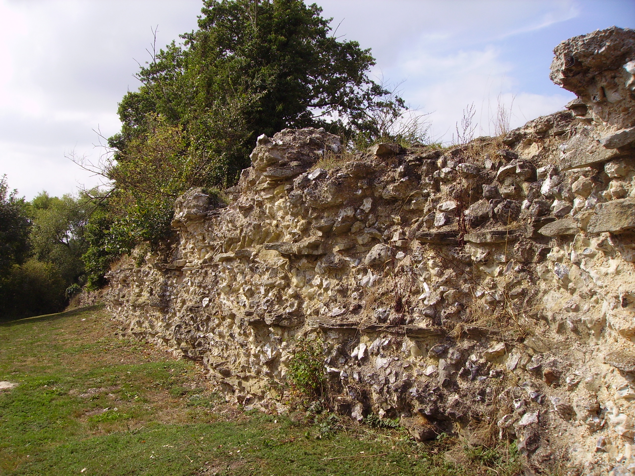 Photographer: User:Ballista